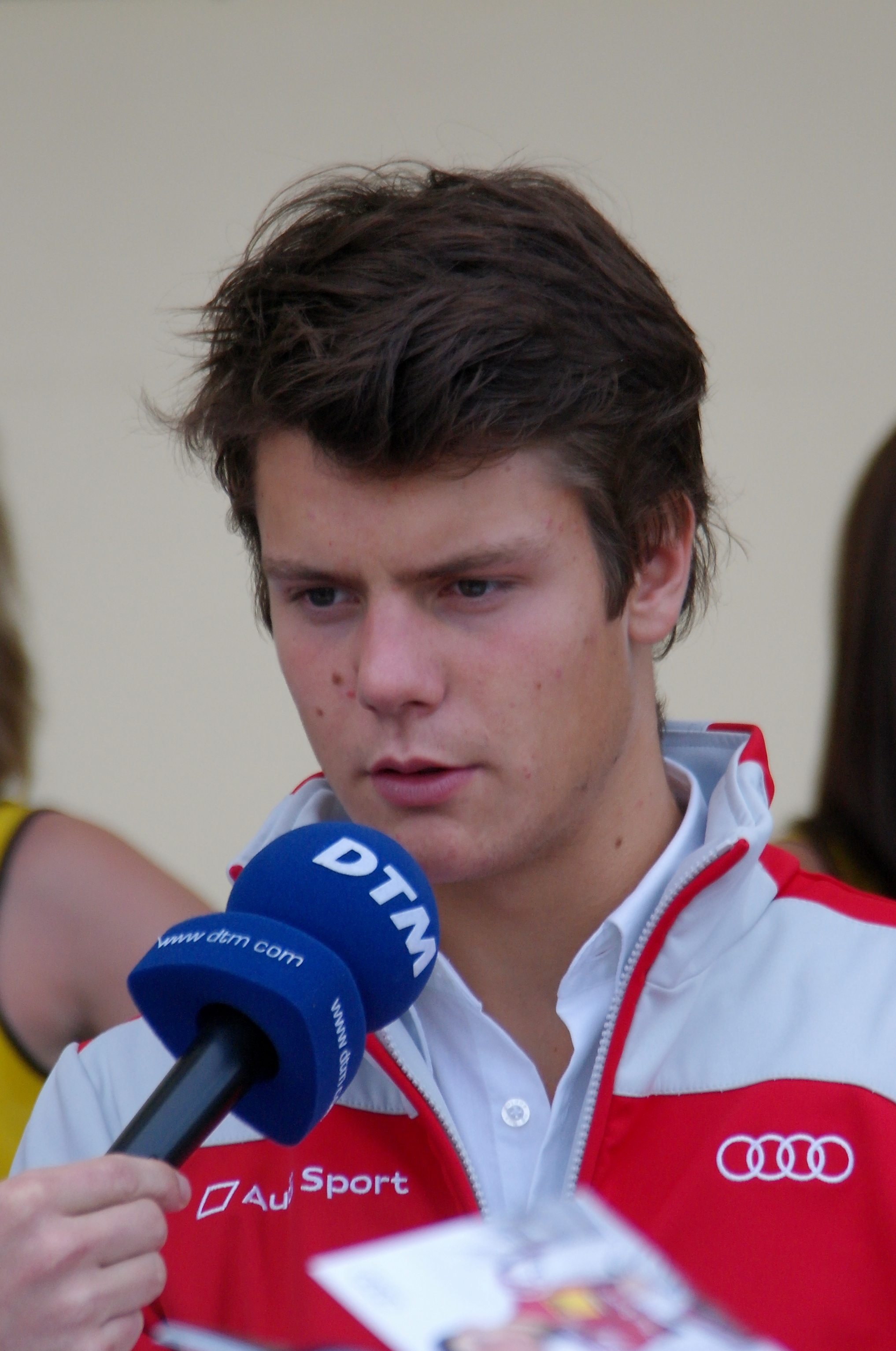 Adrien Tambay at the Brands Hatch round of the 2012 DTM season, taken at the Saturday driver signing session.